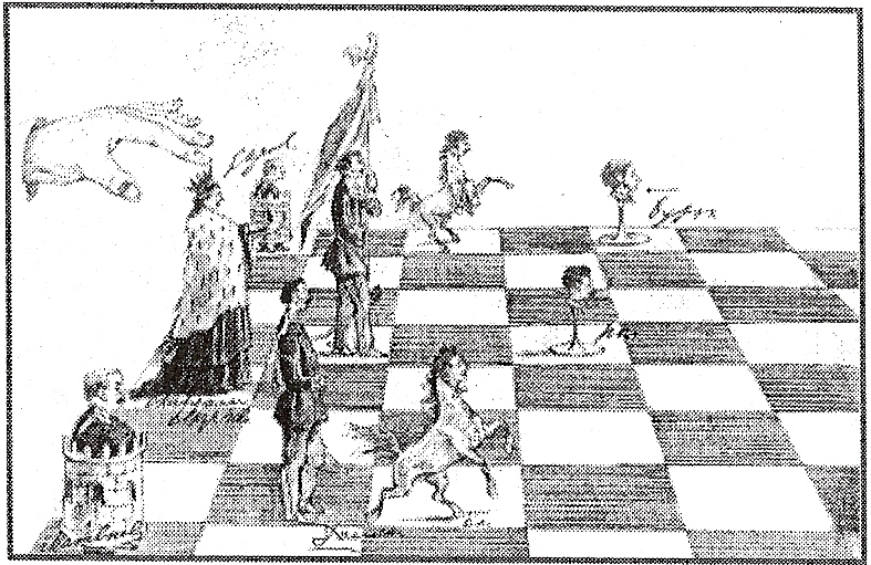 Рисунок из анонимного альбома 1850-х годов с изображением членов окружения орловского губернатора Сафоновича